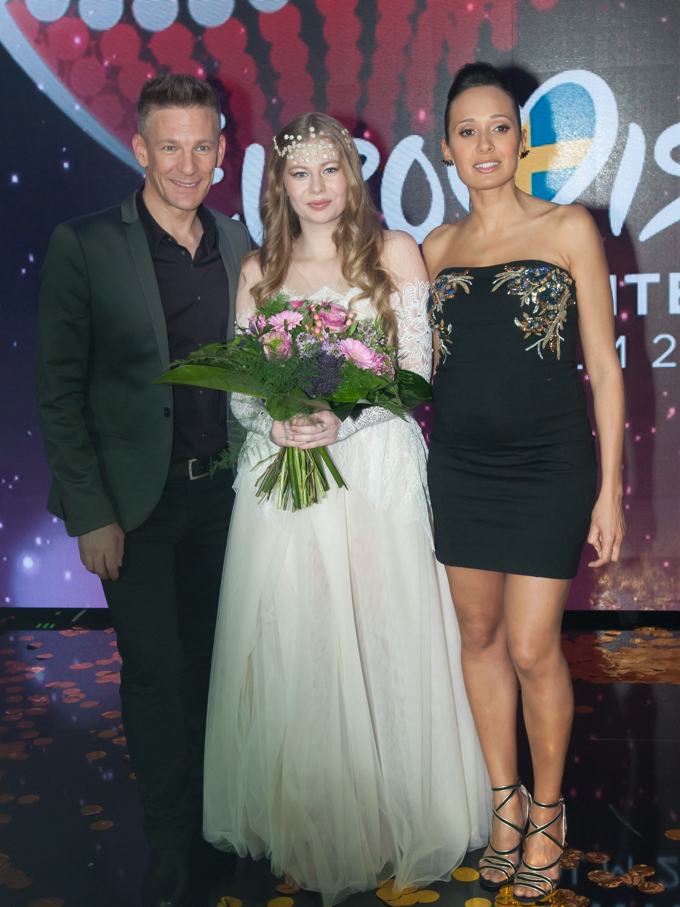 ESC 2016 National Final Austria